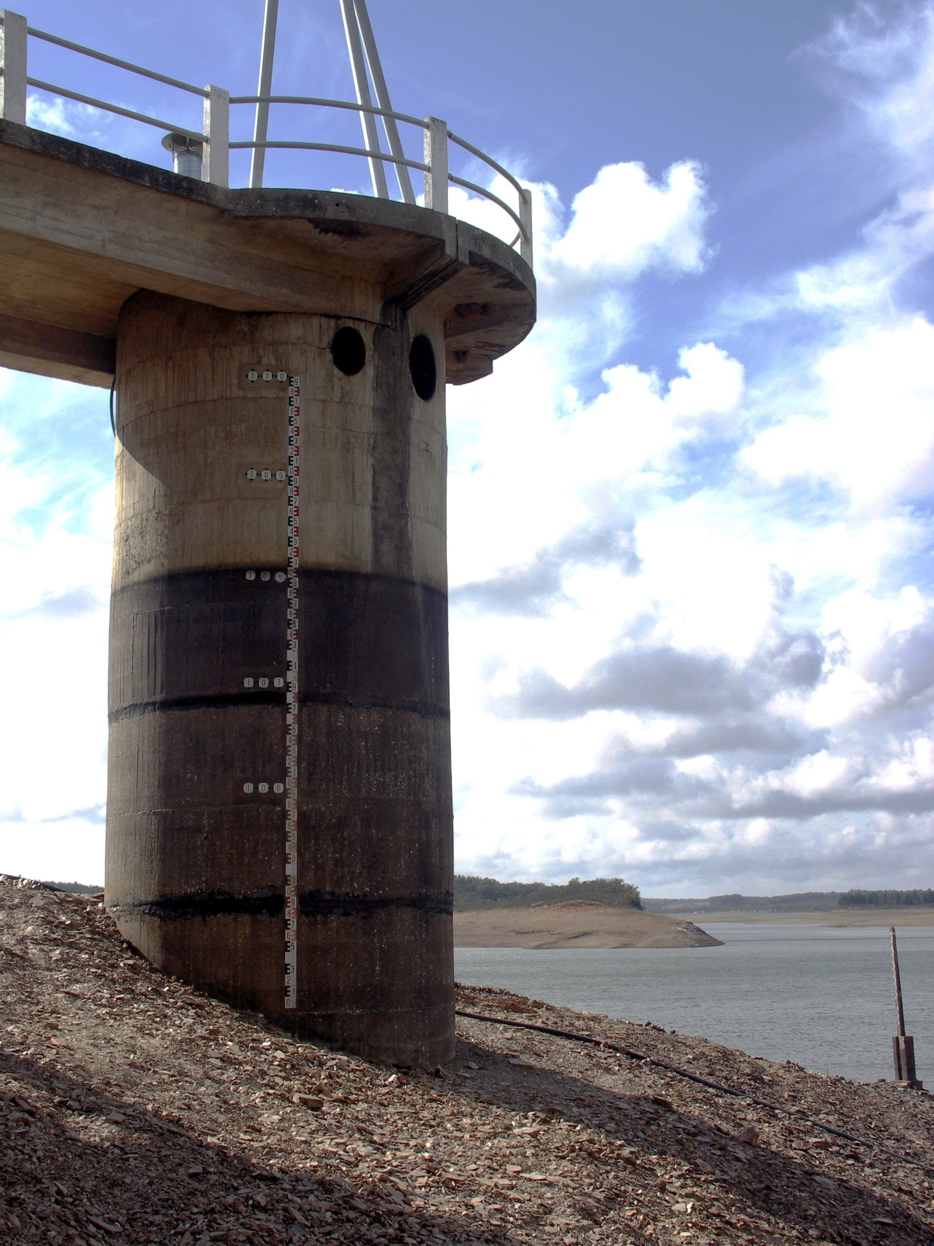 Dam of Campilhas (37º 50'N, 8º 37' W), Alentejo, SW Portugal. The scale measures the elevation, in meters, above Mean Sea Level.